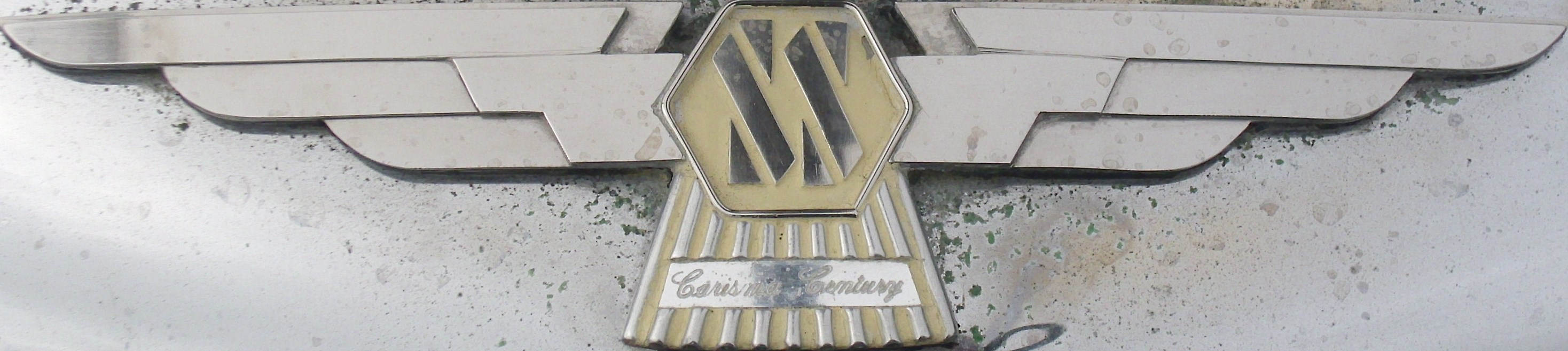 Emblem Carisma Century